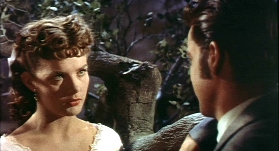 Jean Peters in a screenshot from the trailer for the film Broken Lance.